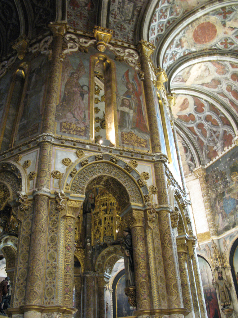 Interior of the rotunda of the Convent of the Order of Christ in Tomar, Portugal